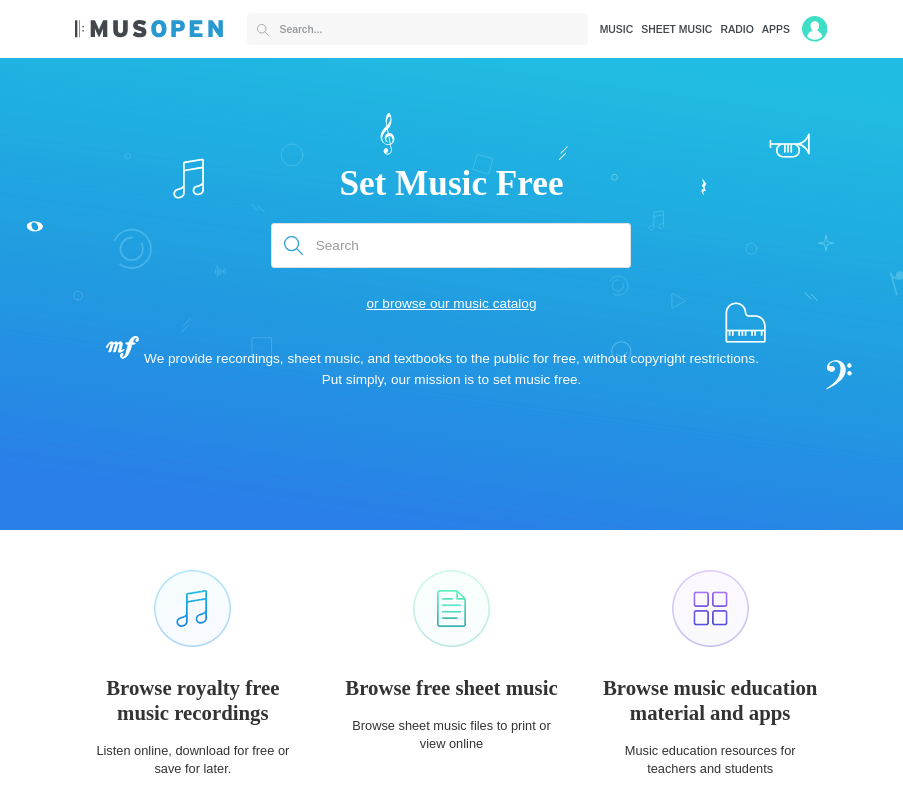 Home page screen capture of taken 1-29-19